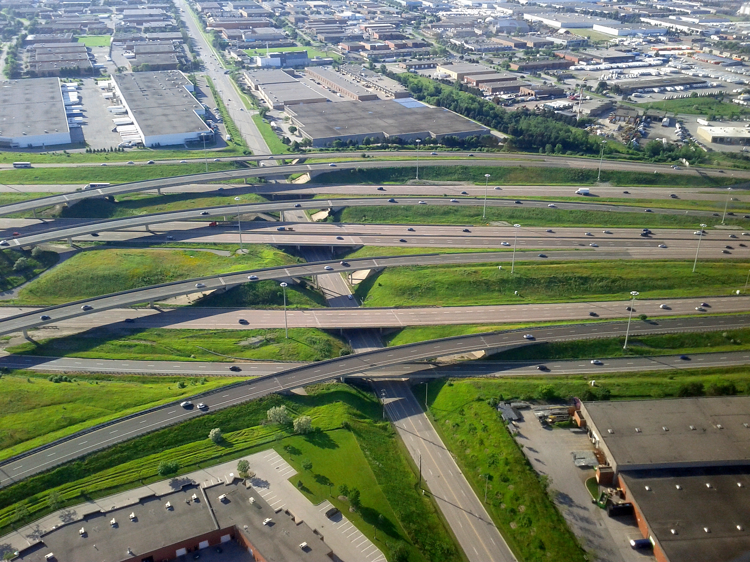 Highway 403's end with Highway 401 in Mississauga where it joins it's collector and express lanes. Tomken Road passes underneath them.